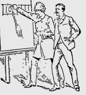 The magician Washington Irving Bishop